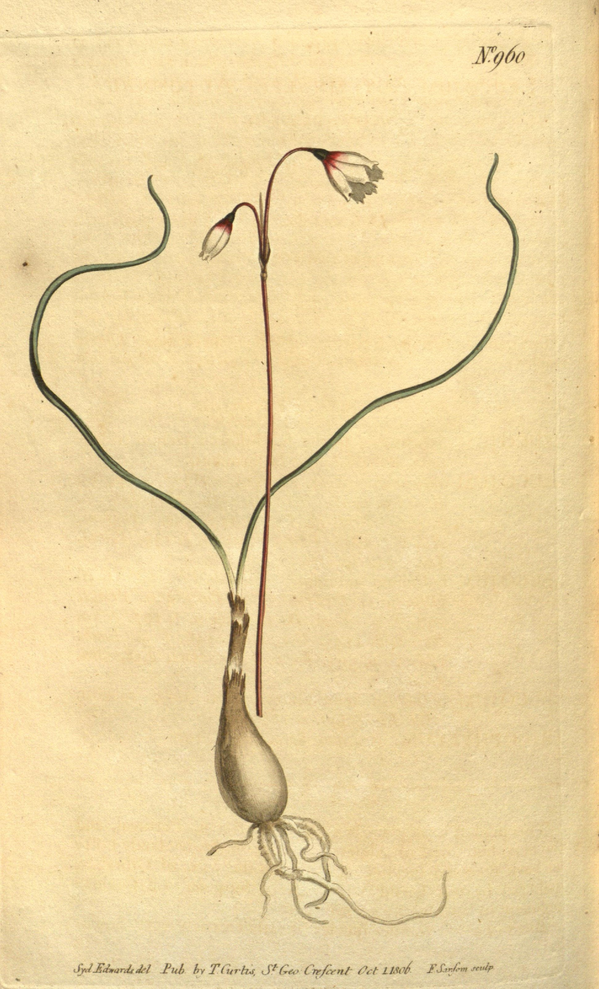 1Fq6o SyJ^Jnard.^1 Inh bv T Curh* J*G+ ■( */.,.,/ . '